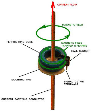 A Hall sensor integrated into a ferrite ring (as shown) can reduce the detection of stray fields by a factor of 100 or better (as the external magnetic fields cancel across the ring, giving no residual magnetic flux).